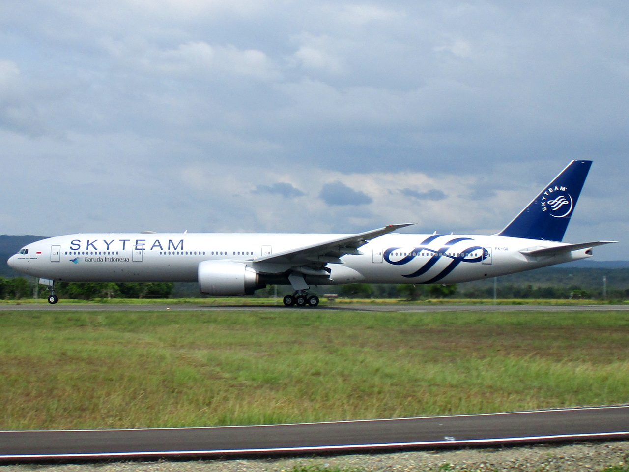 Departing to Jakarta as GA5991